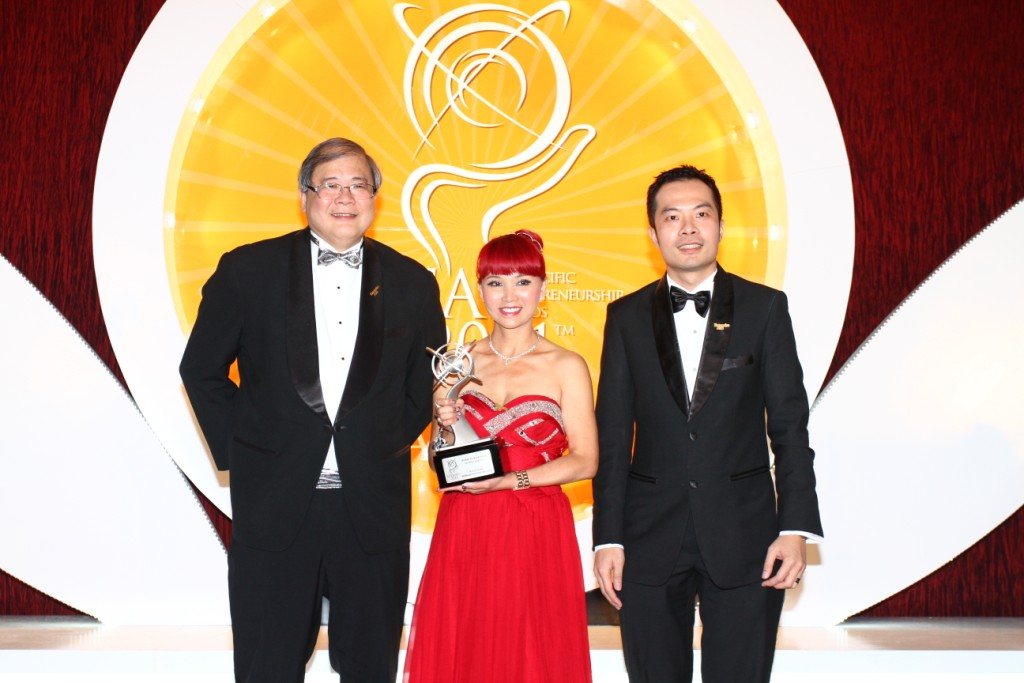 Joyce Tsang, Chairperson and President of Modern Beauty Salon receiving award from International Advisors of Enterprise Asia